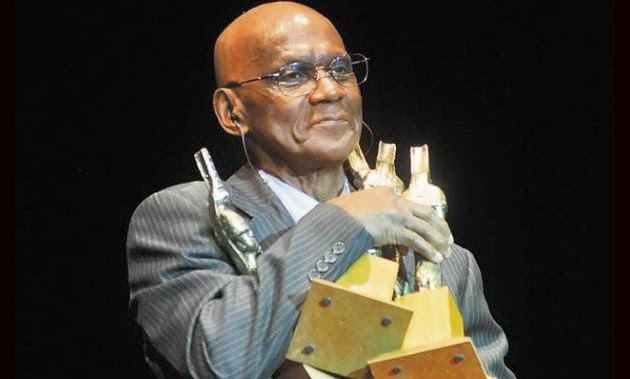 Cuco Valoy Y sus Trofeos